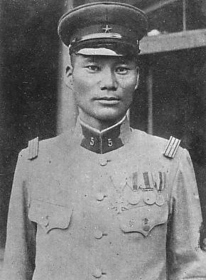 Aizawa Saburô